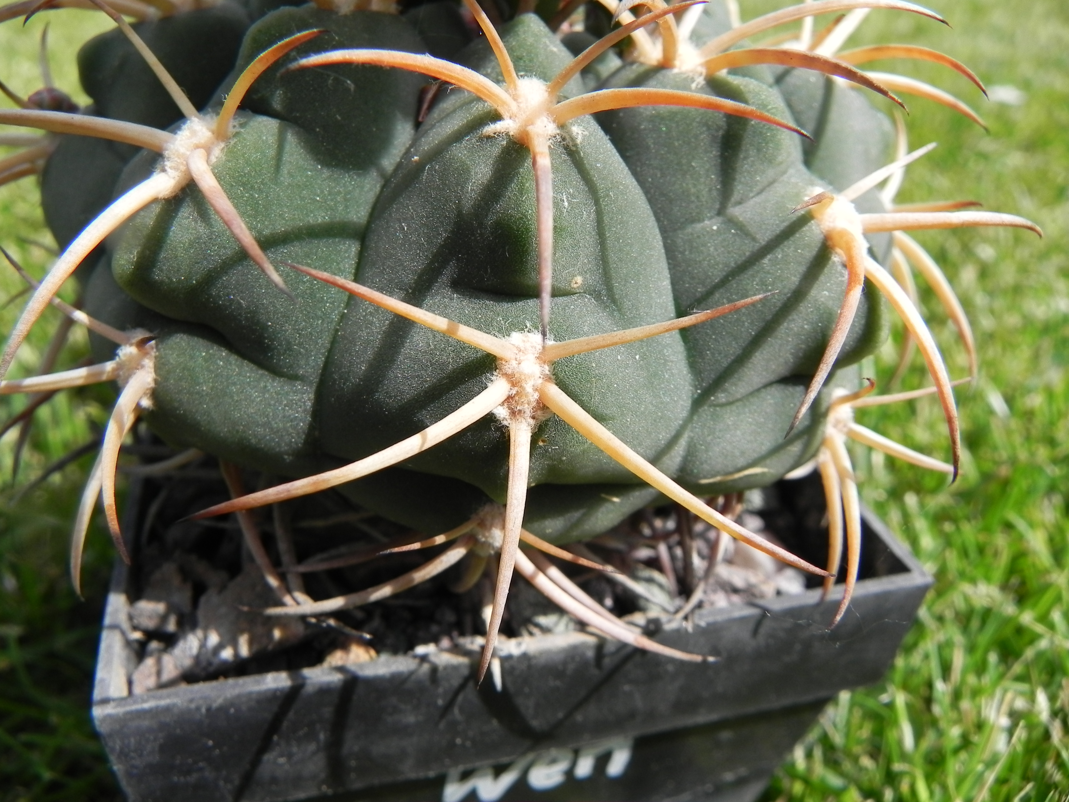 Photo of the cactus Gymnocalycium bayrianum GN88 69 H.Till, taken from a plant in cultur, detail of spines.